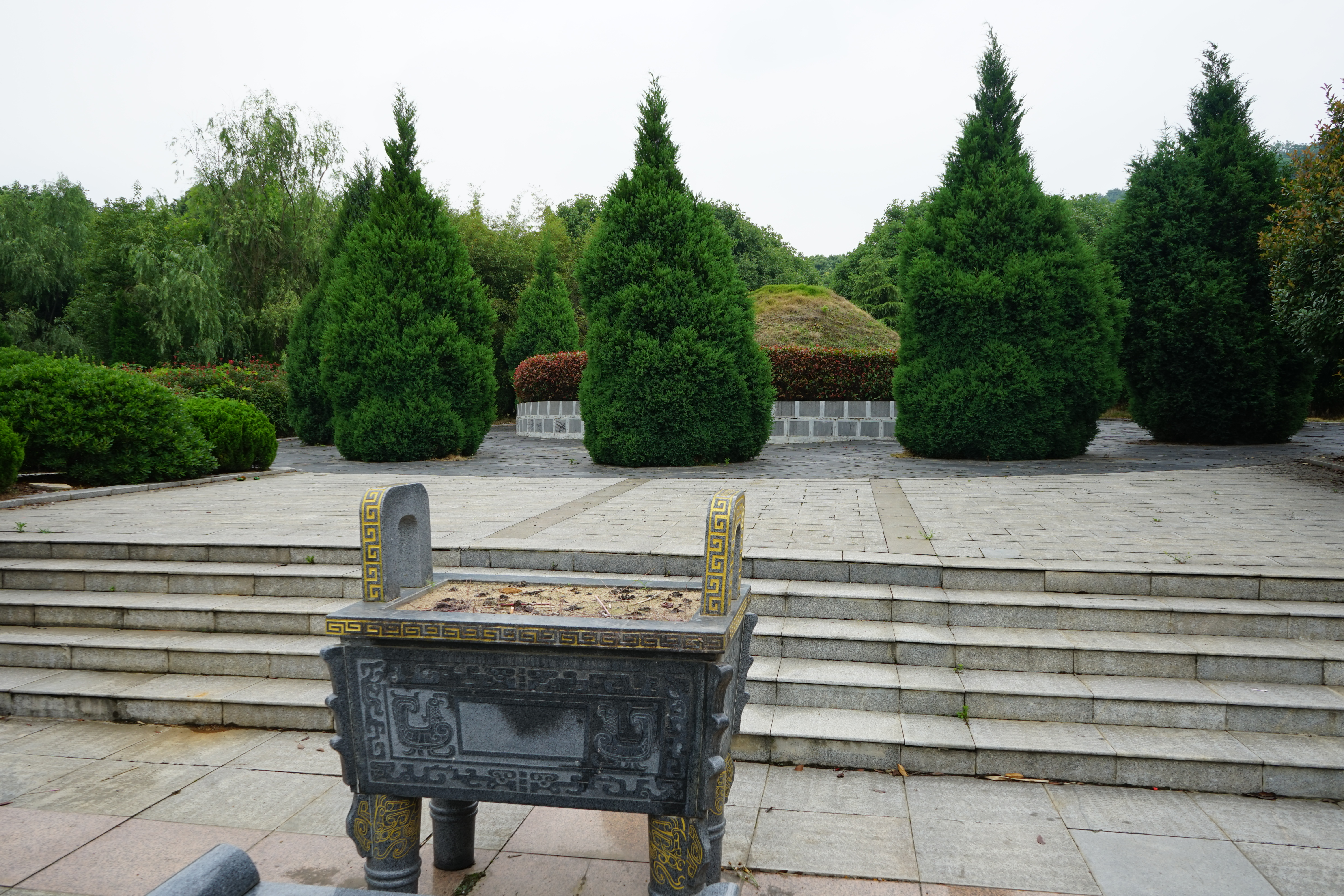 Tomb of Zhong Ziqi